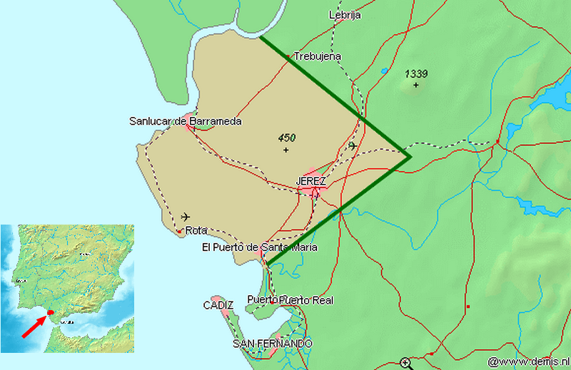 Source: Demis Map